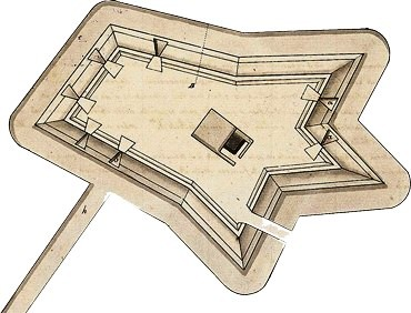 Early drawing of the plan of the Fort of Cego, Lisbon District, Portugal